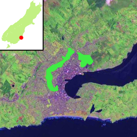 Map showing location of Dunedin Town Belt, New Zealand. Based on NASA satellite map